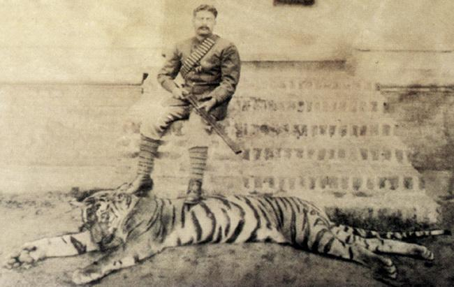 Photograph, circa early 1900s, of Ramendranarayan Roy, prince of Bhawal estate, (currently Gazipur District, Bangladesh)